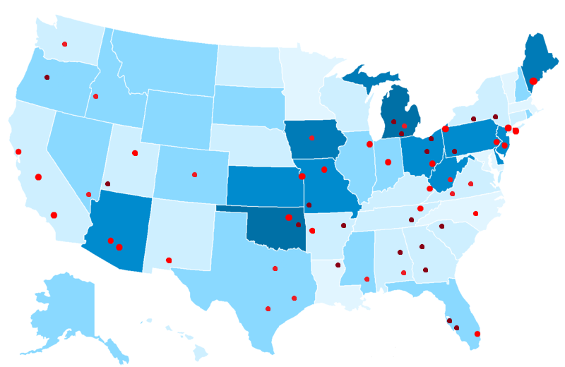 Distribution of osteopathic physicians in the United States as a percentage of all physicians, by state. Location of osteopathic medicine schools are shown in red.